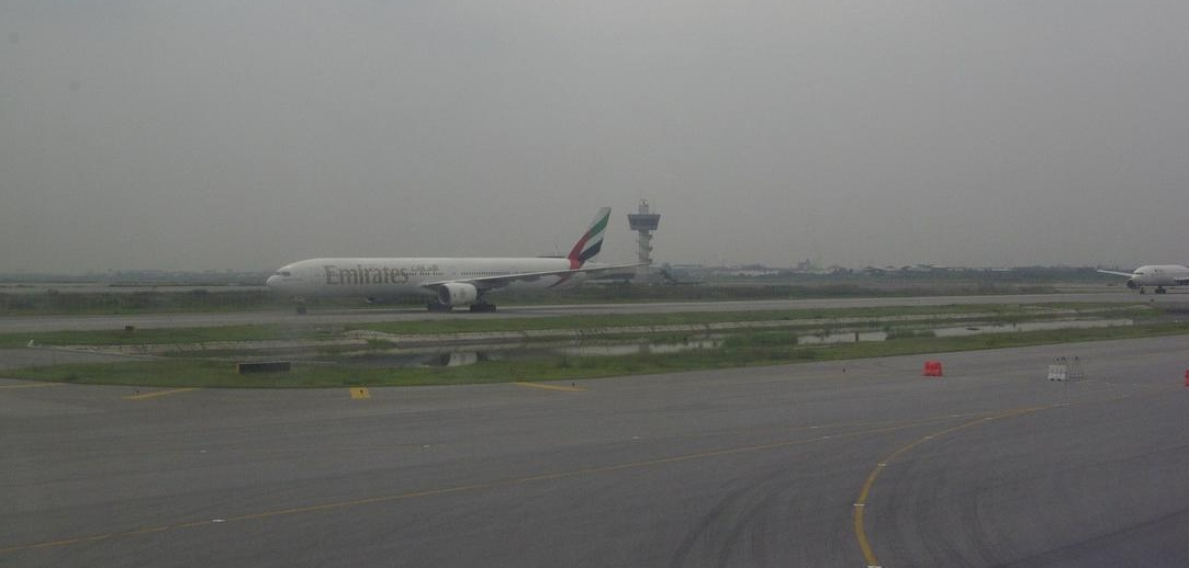 In airplane, Suvarnabhumi International Airport